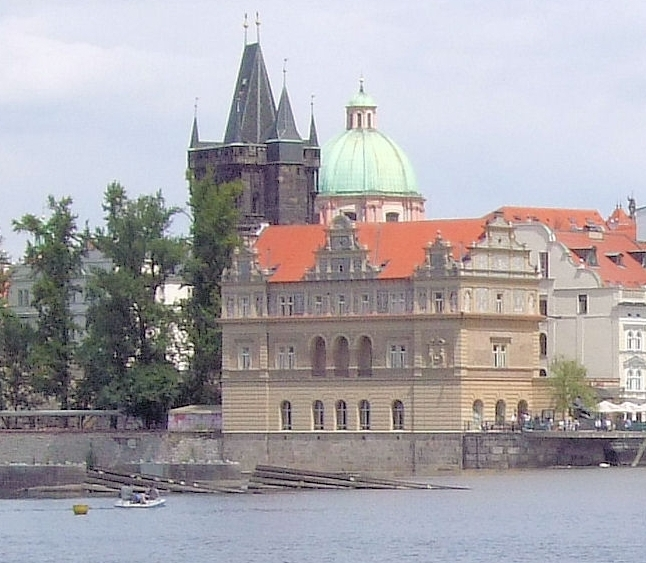 Looking downstream on the Vlatrava River to the Charles Bridge tower (dark tower on left). The Green Dome is the church of St Francis, and the main building is the Smetana Museum.